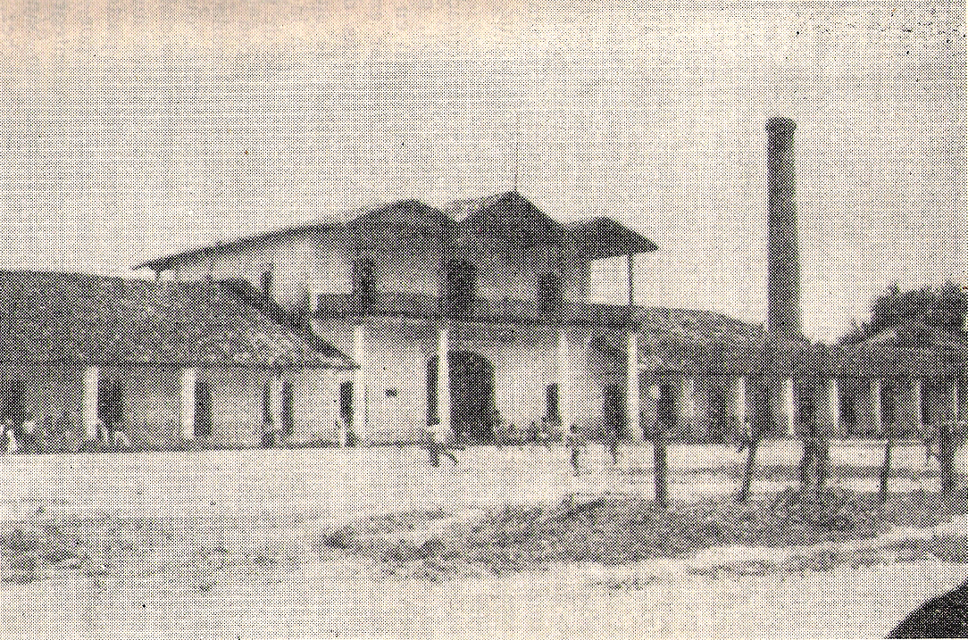 This is a picture of ancient factory "Progreso del sur" of textile works, it was stablished in 1904 in "Cuajinicuil", now a days "El Ticuí".